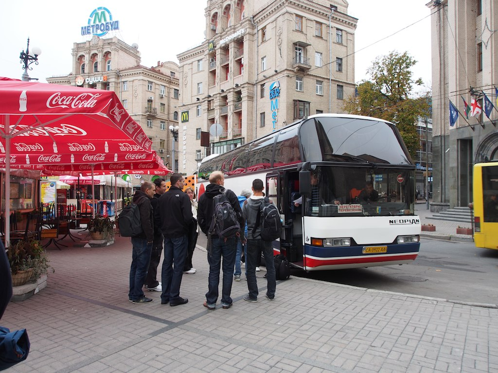 Boarding the bus fro Chernobyl